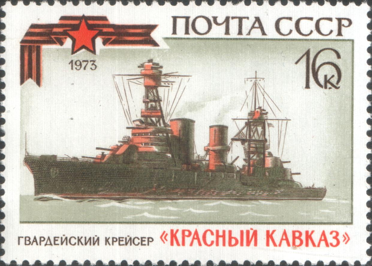 USSR stamp